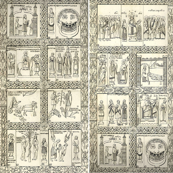 Korsun Gate of the Saint Sophia Cathedral in Novgorod. An illustration from Adelung's monograph The Korsun Gate (1834).